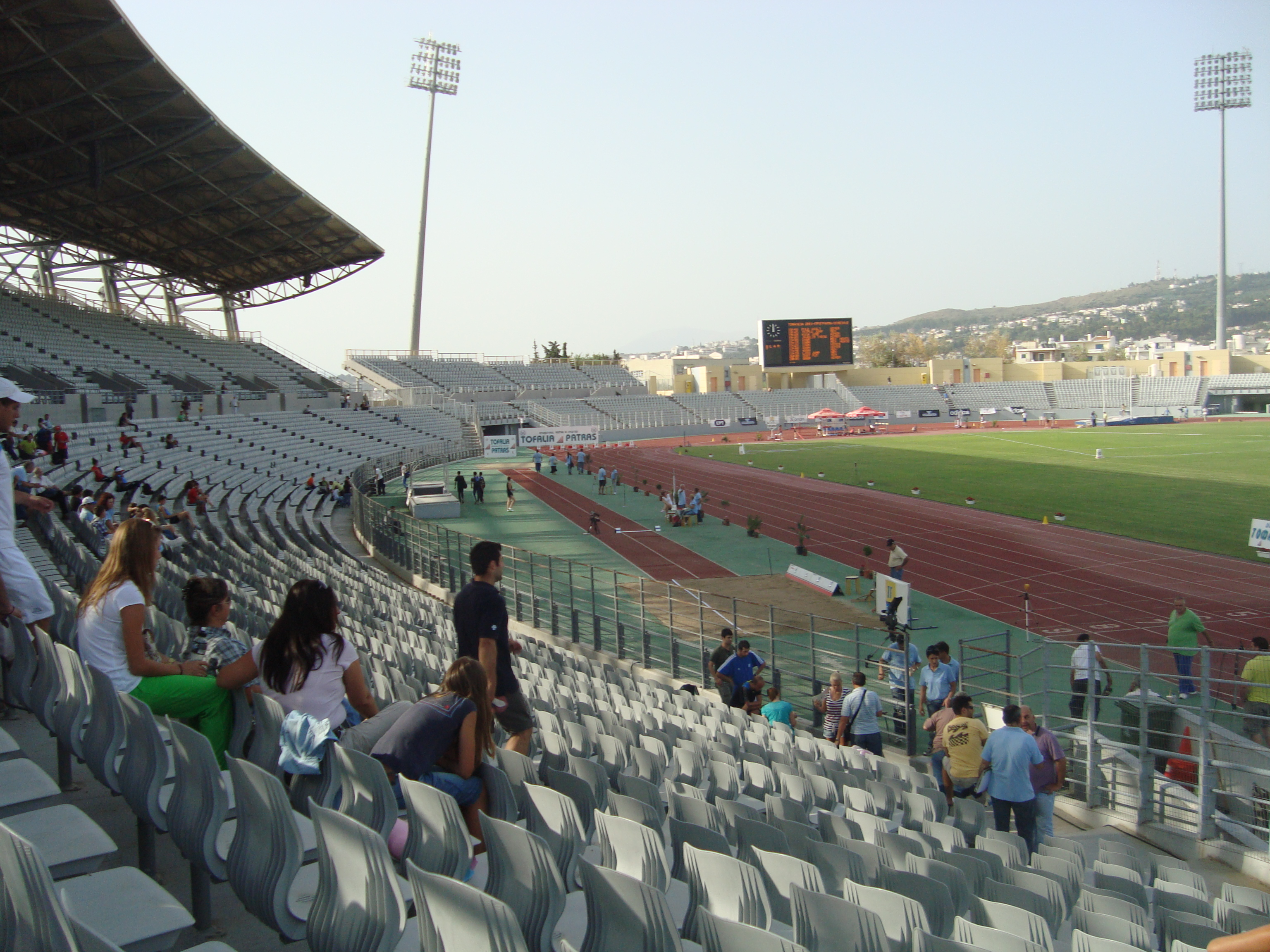 Pampeloponisiako Olympic Stadium in Patras